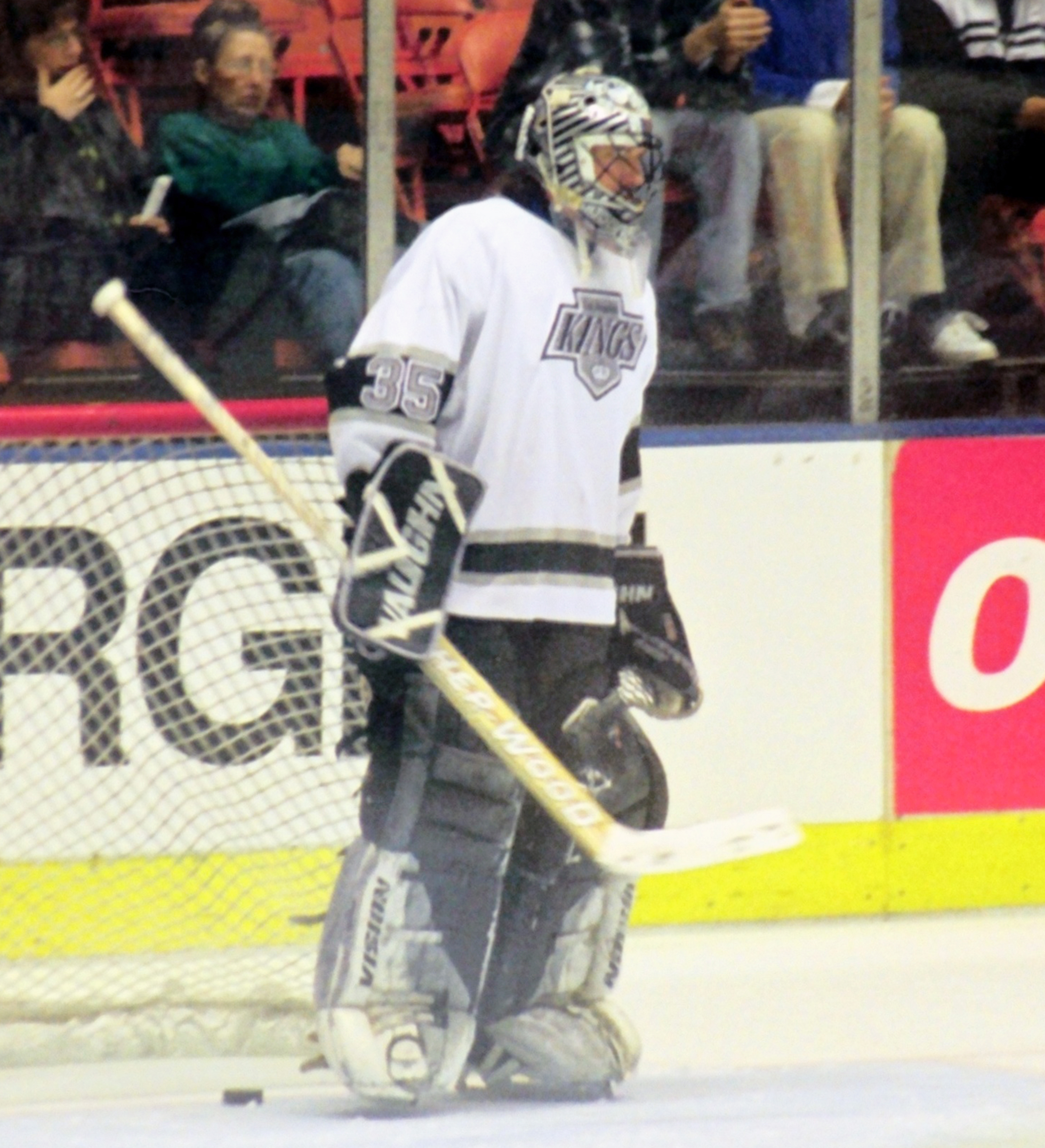 Fiset as a member of the Kings.